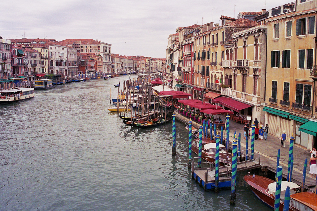 Picture taken in Venice